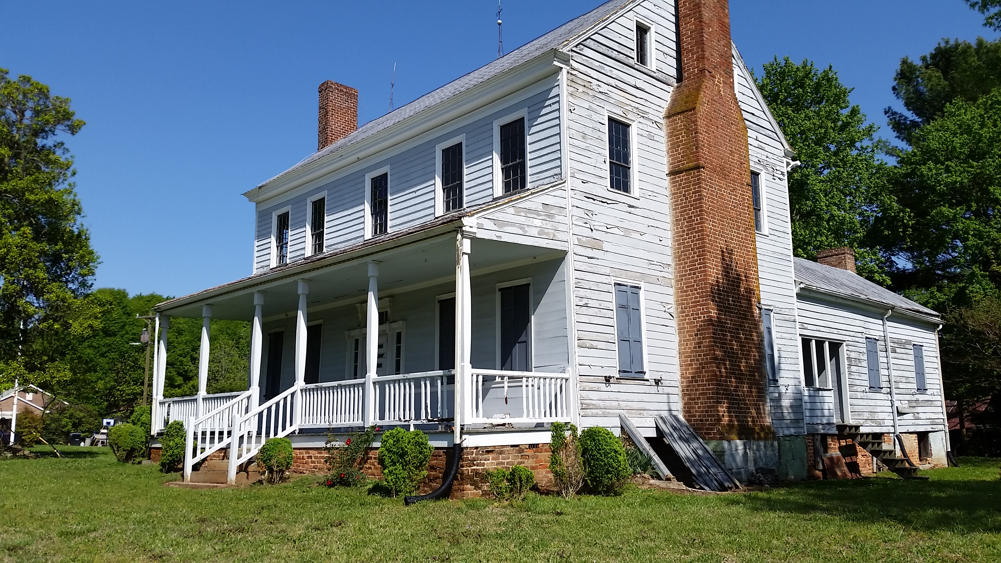 Eli Hoyle Home, April 28, 2018, Dallas, North Carolina